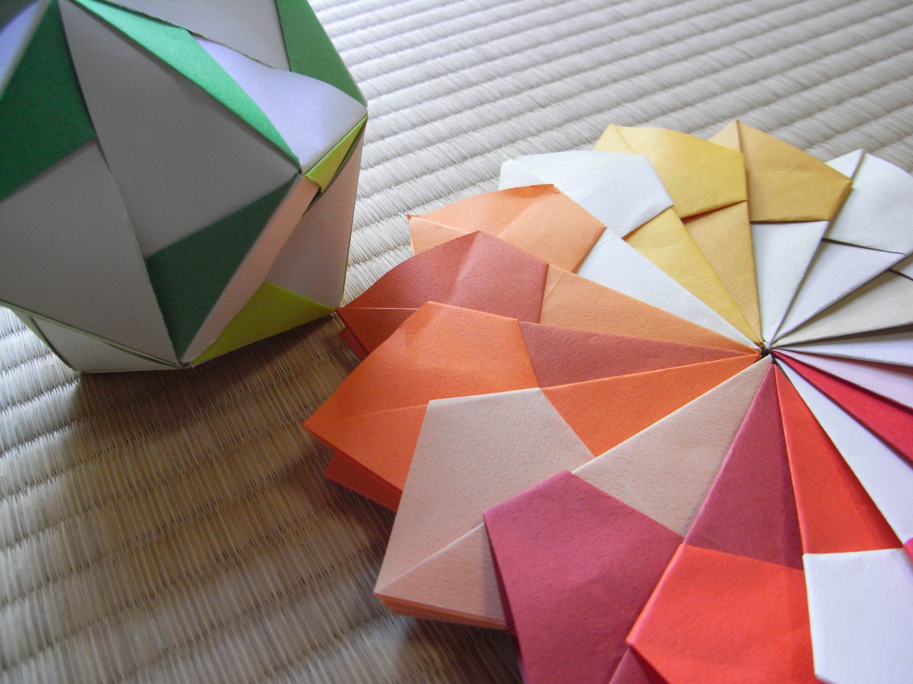 Modular Origami, Japanese folding paper works.